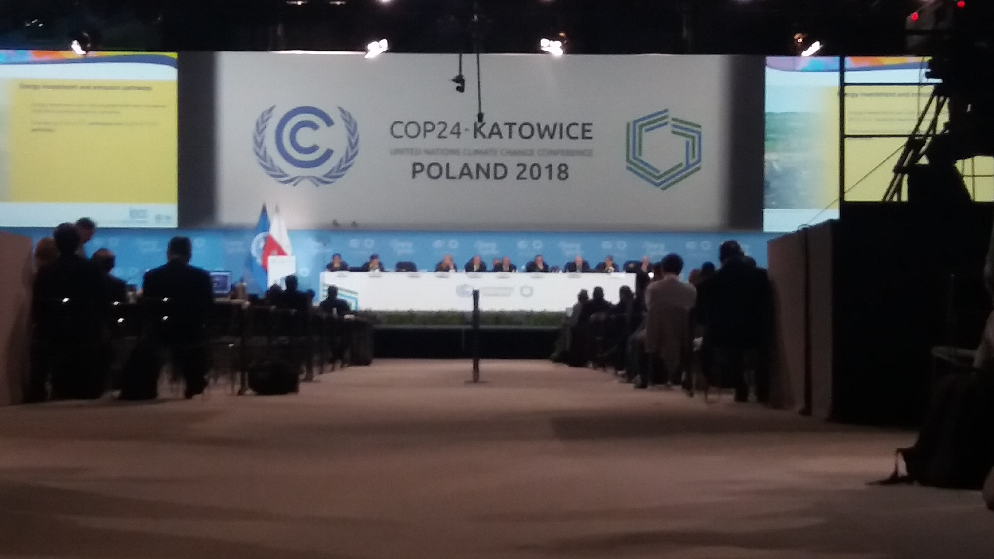 COP24 Katowice plenary session.